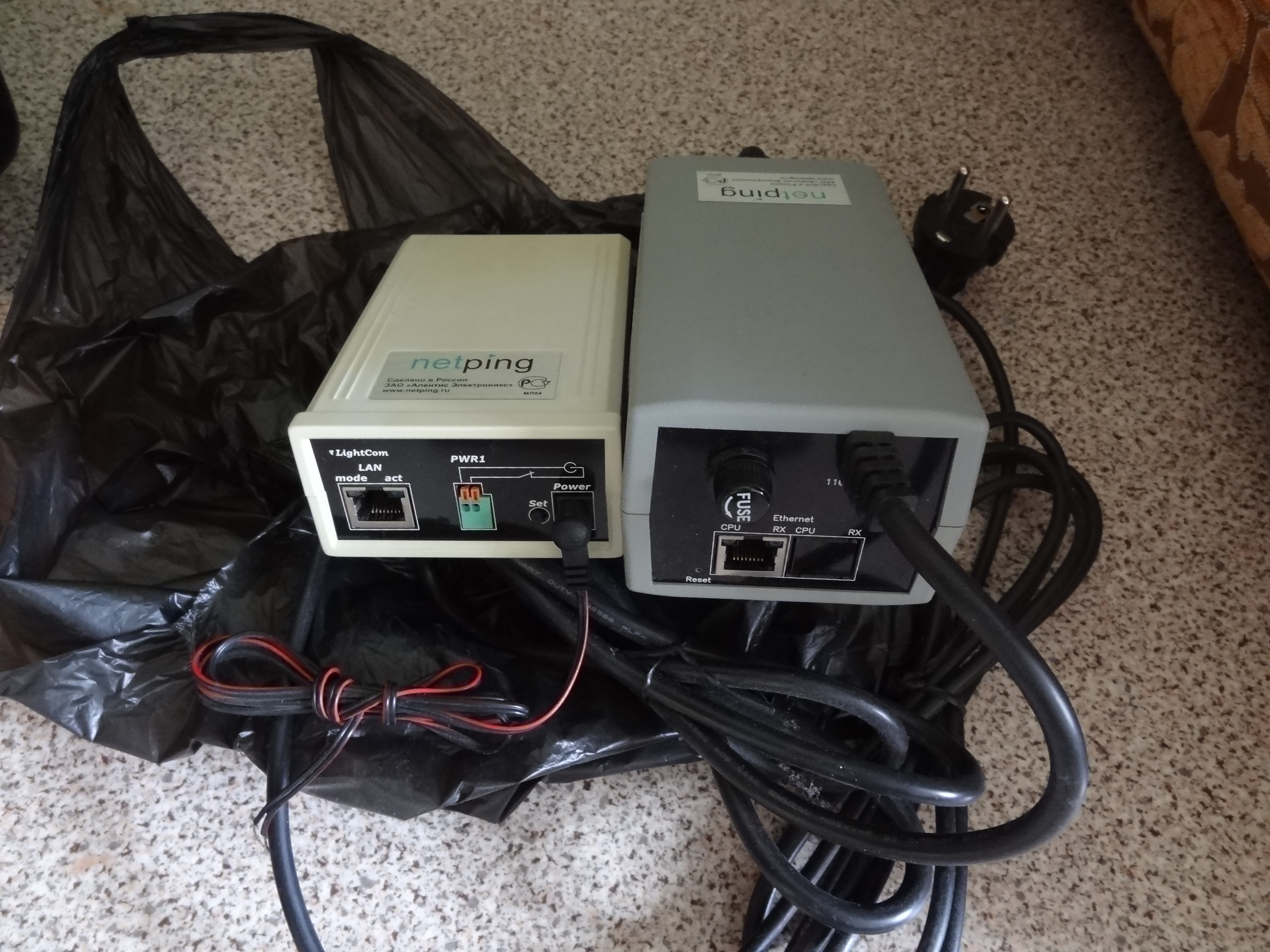 Remote power management device Netping 2PWR220v3 Remote sensors monioring device Uniping v3